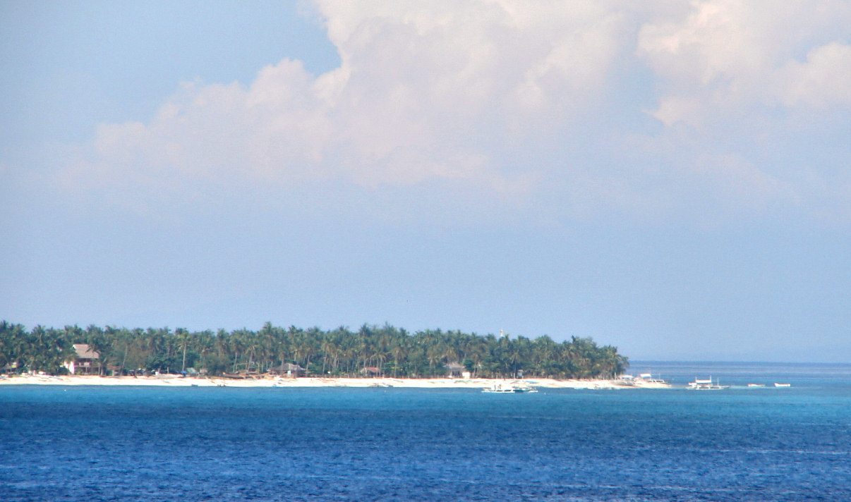 Malapascua Island, Cebu province, the Philippines.